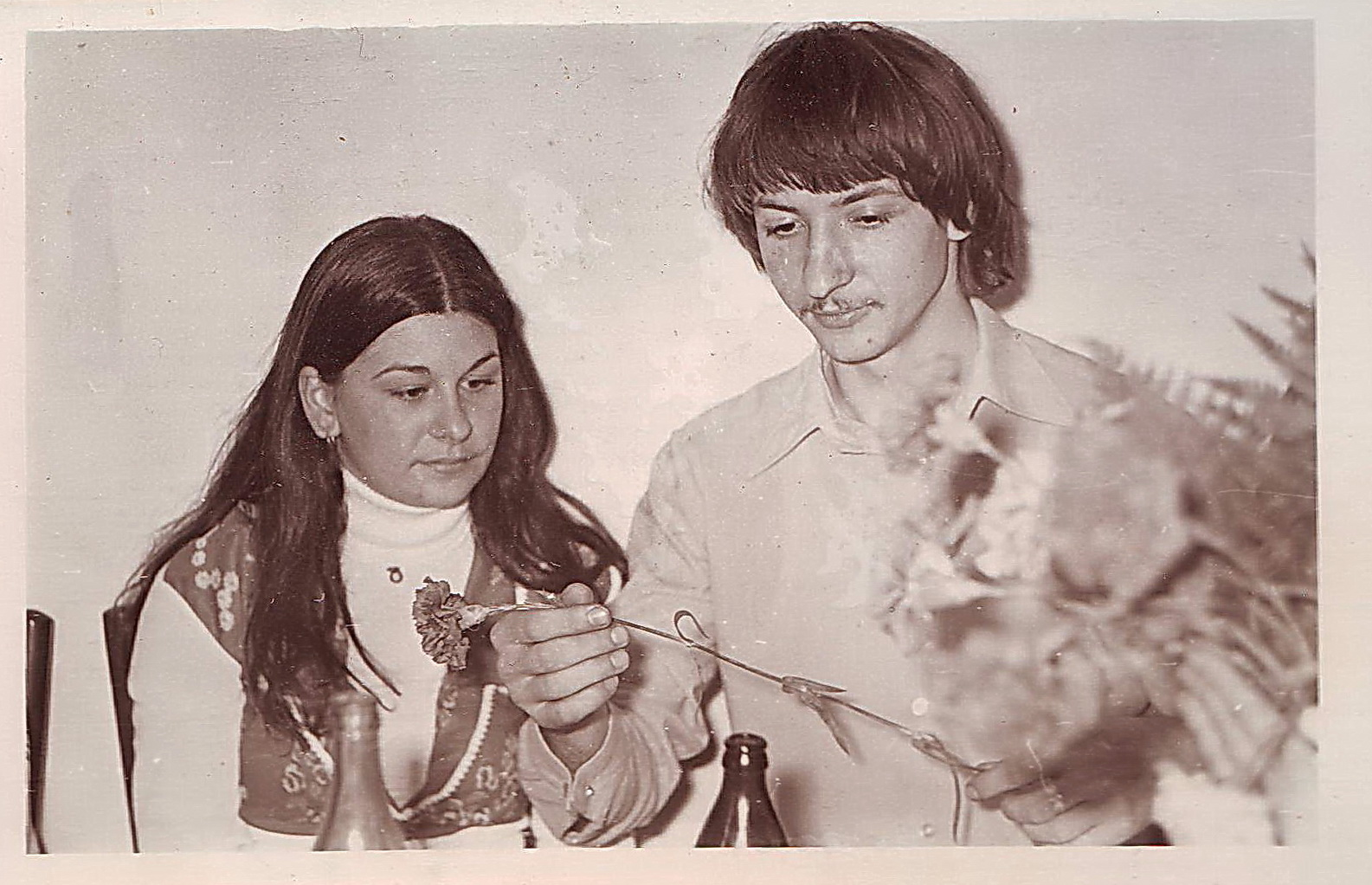 painter Mircea Ghiorghiu and wife Carmen-lorena